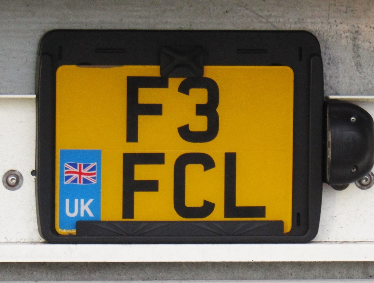 UK Euroband (Brexit) trailer plate